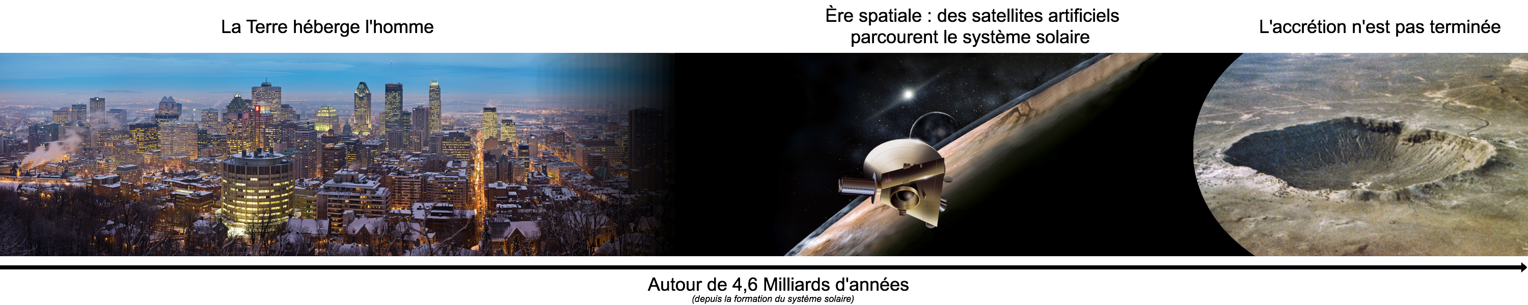 composition of the evolution of the solar system - Forth part